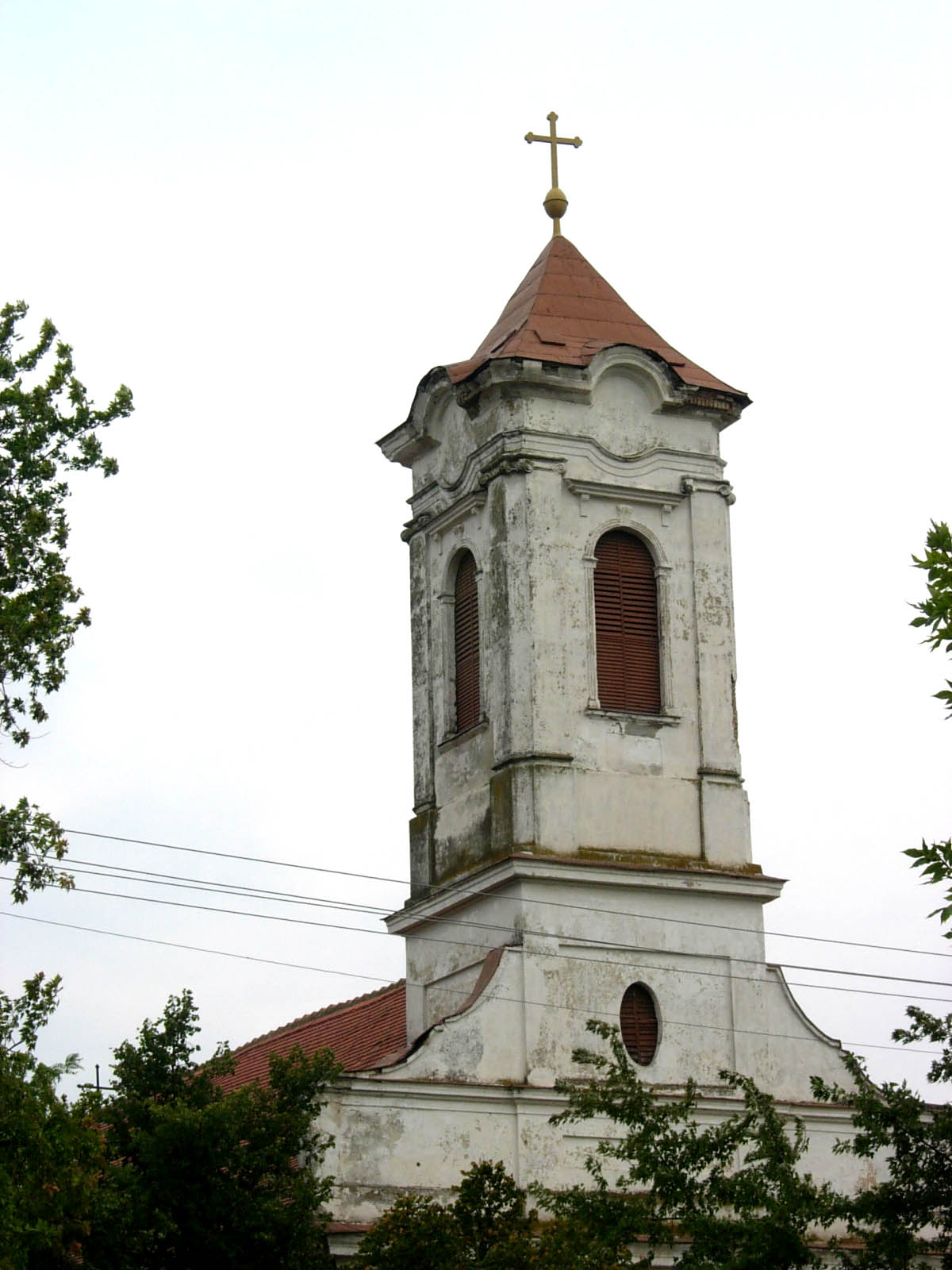 The Orthodox church in Žitište.